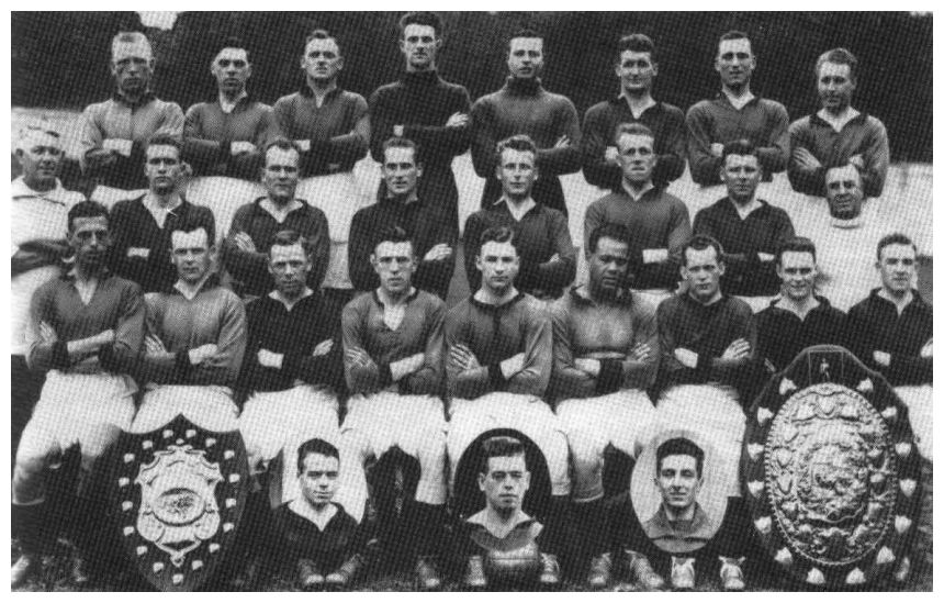 Plymouth Argyle Football Club 1929-30 Team Photo